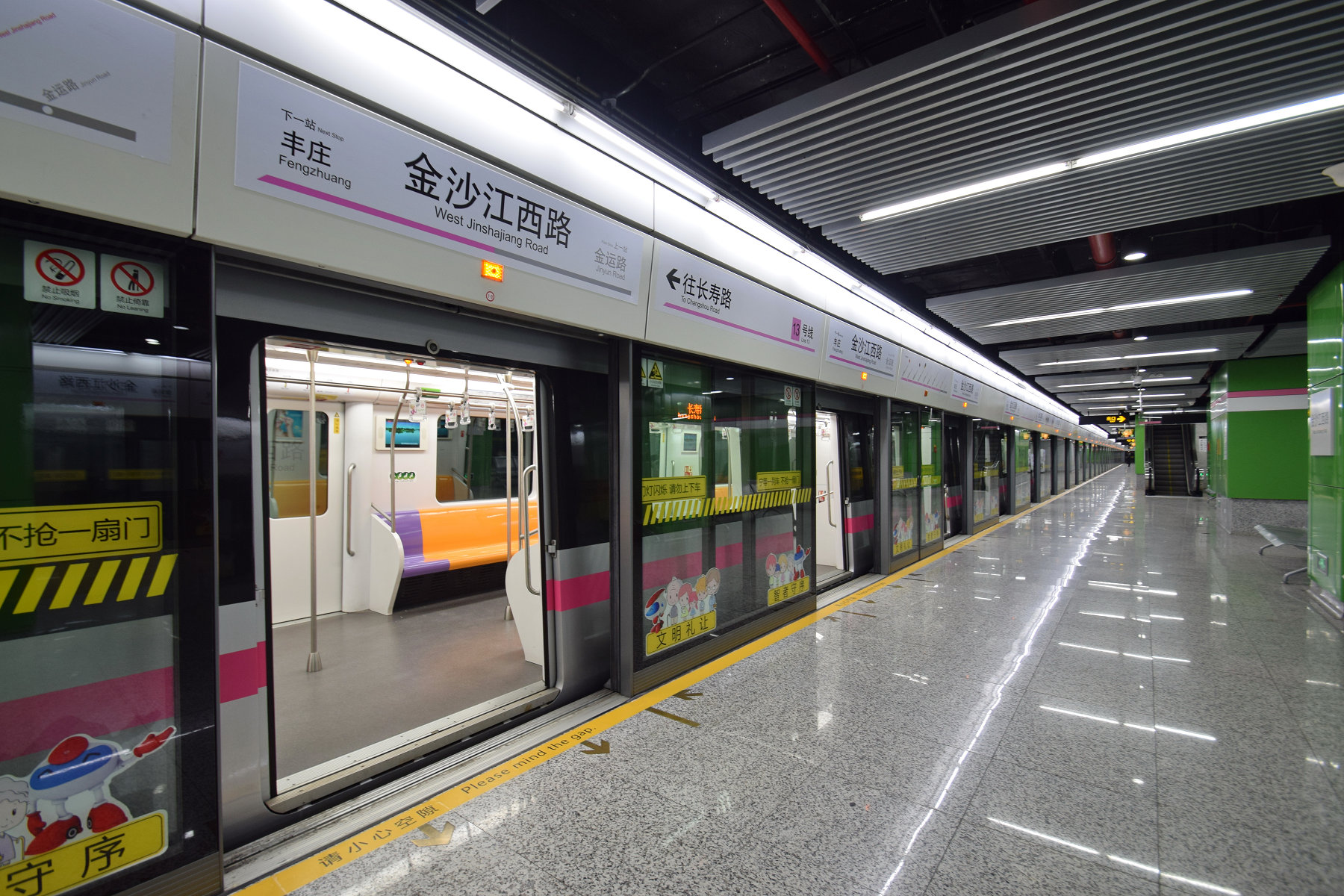 Shanghai Metro Line 13 AC18 Train at West Jinshajiang Road Station